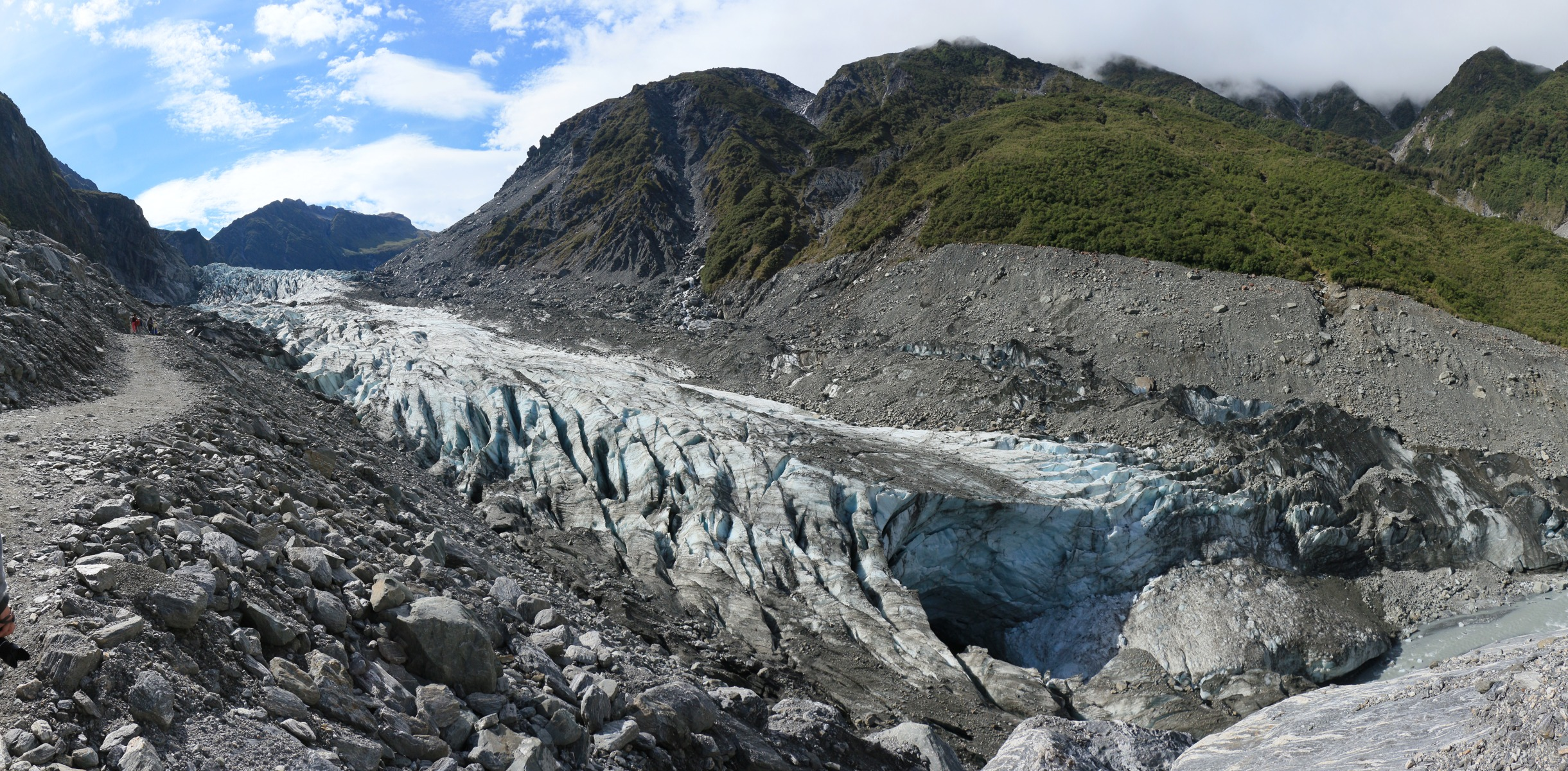 Overview over the lower part of Fox Glacier with the glacier mouth visible on the right hand side. A bit further left is the area where in 2013 tourists could take glacier walks in guided tours. The clearly visible limit of vegetation on the right (southern) slope marks the temporary maximum height of the glacier around 2009, only four years earlier!